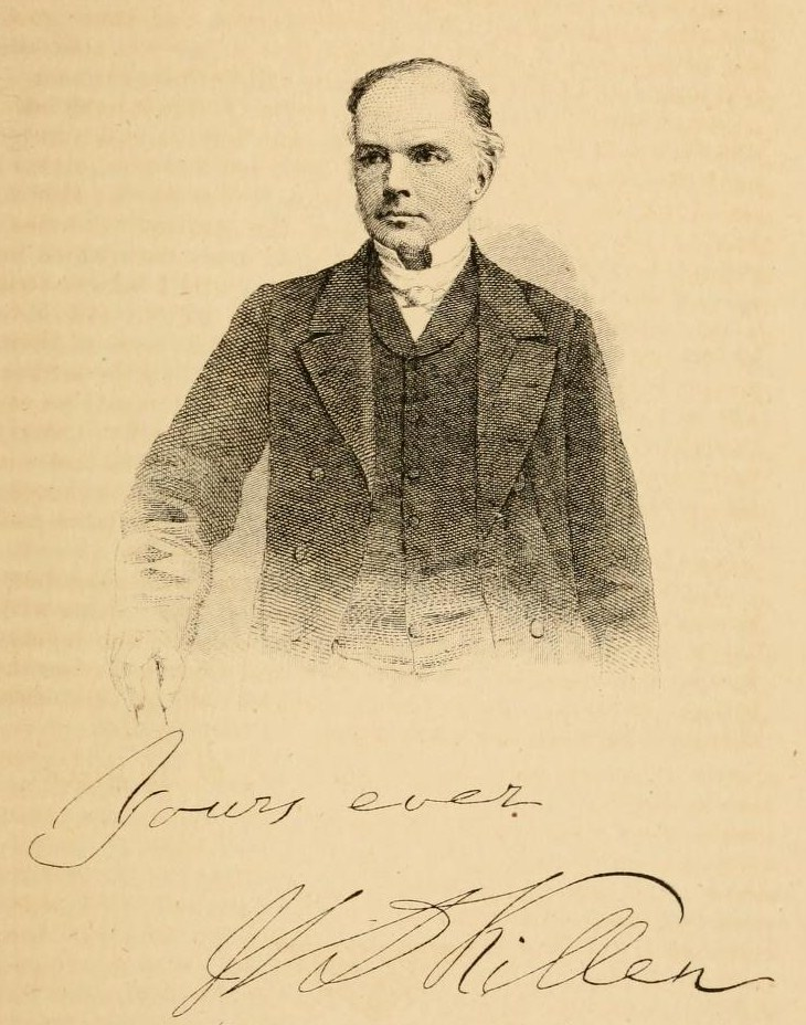 Portrait of William Dool Killen(1806–1902), Irish Presbyterian minister and historian.